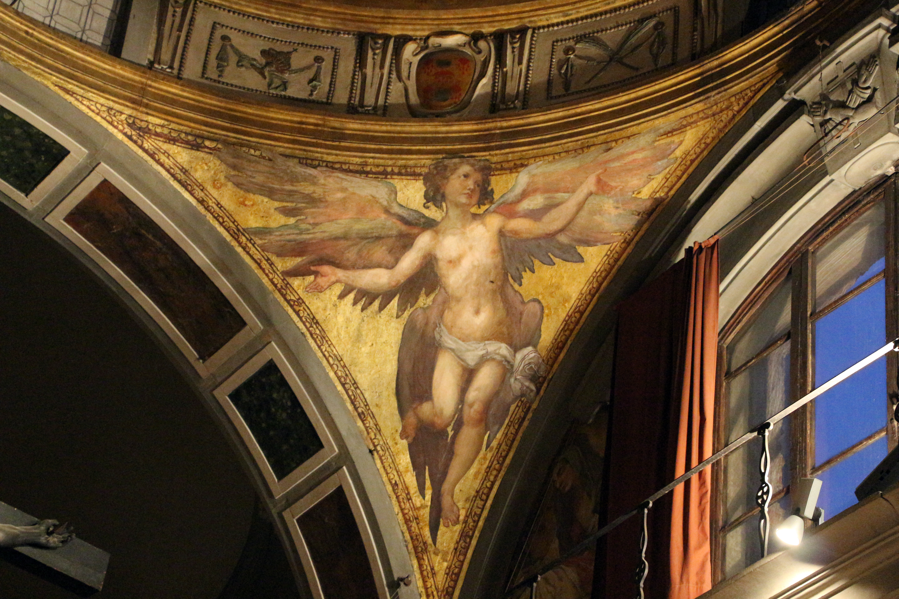 Ognissanti (Florence) - Interior